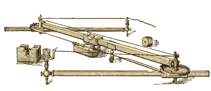 William Wallace's Eidograph